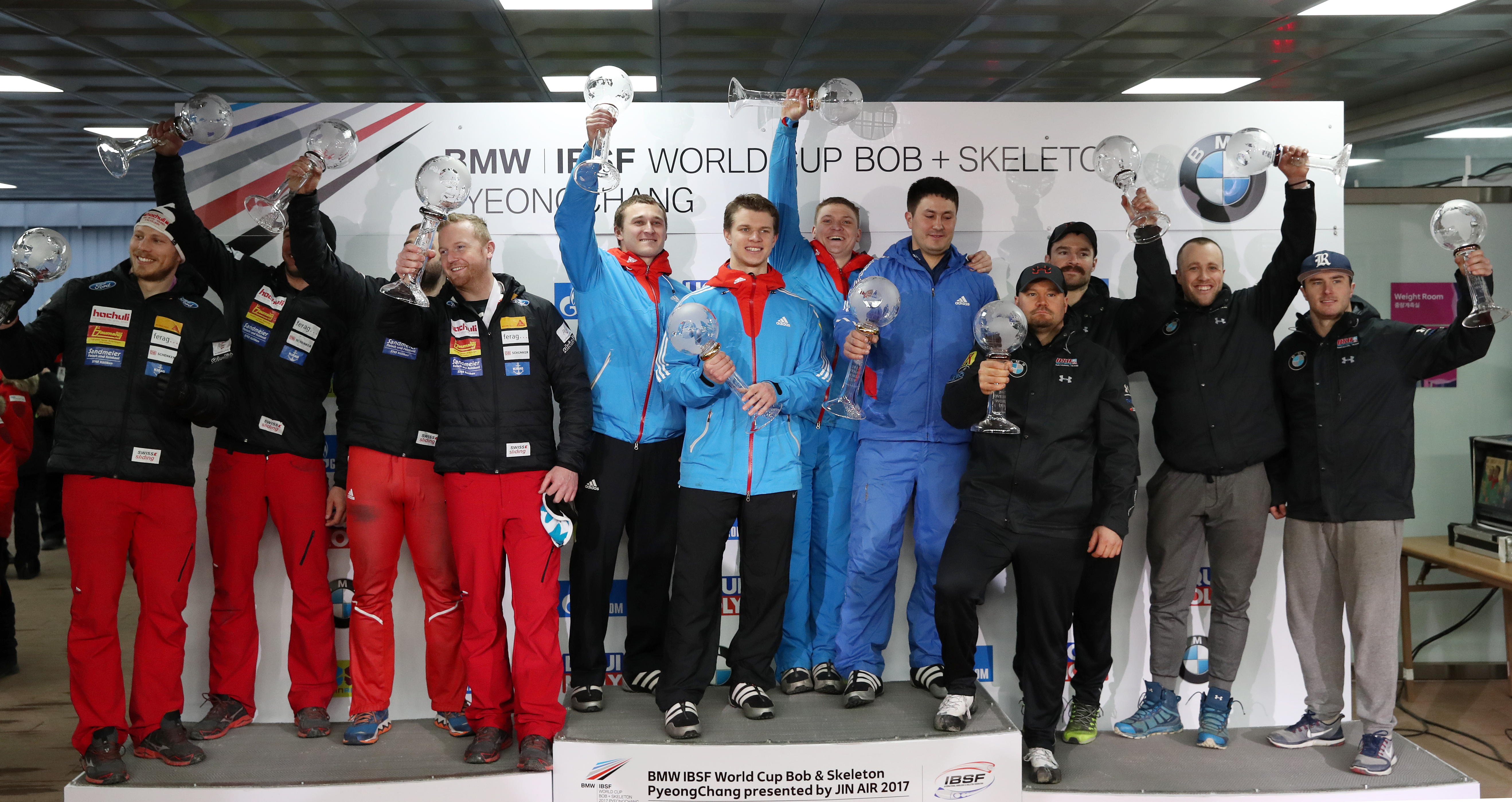 BMW IBSF World Cup Bob & Skeleton 2016/17 PyeongChang. 4-Man Bobsleigh WC Standings winners.